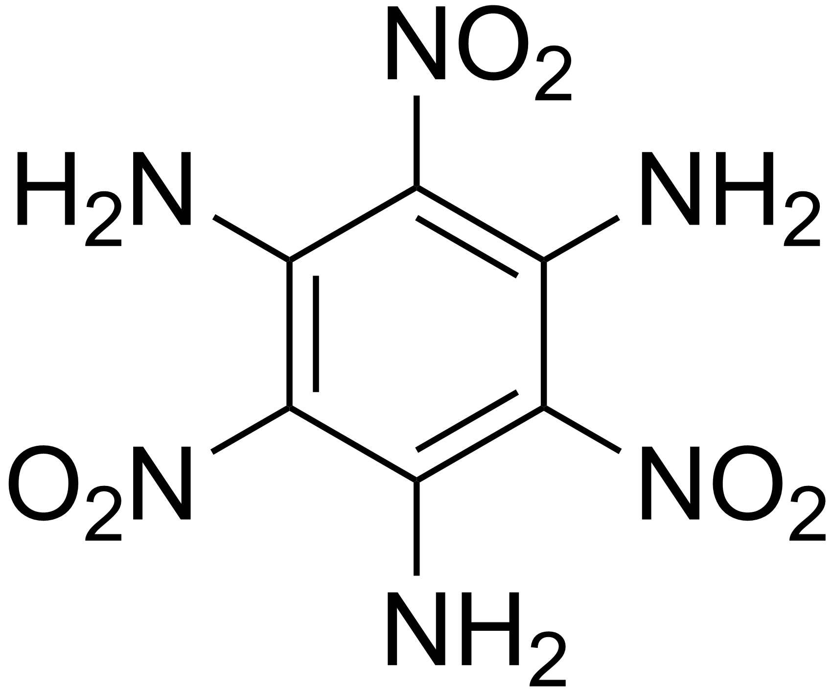 Chemical structure of Triaminotrinitrobenzene created with ChemDraw